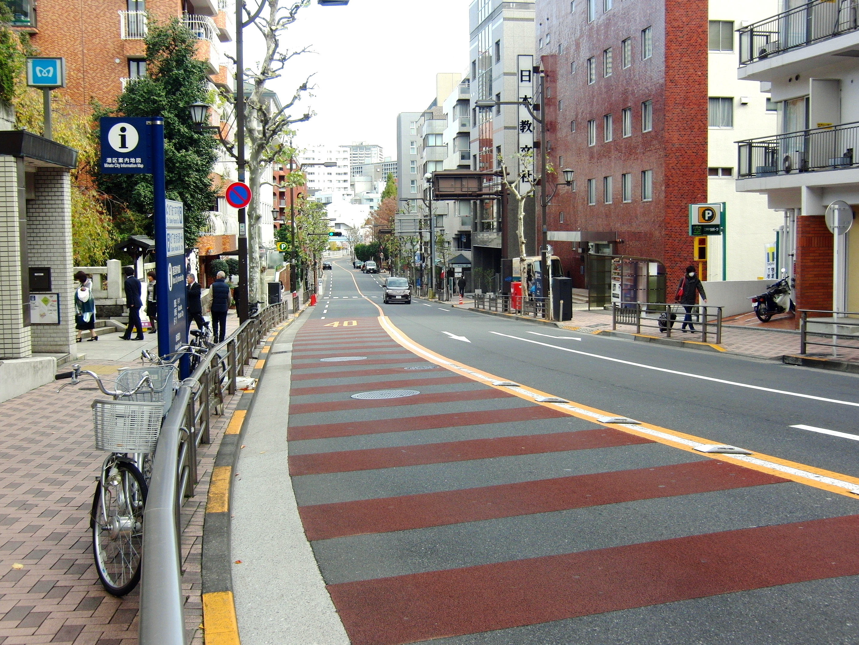 The slope named "Nogizaka", in Akasaka, Tokyo, Japan